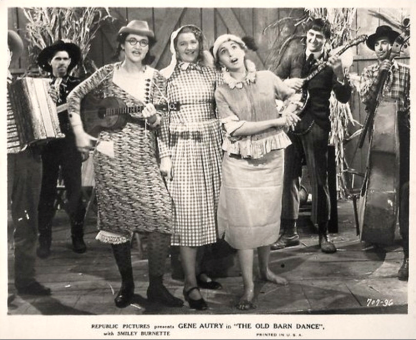 Photo of the Stafford Sisters from the 1938 film The Old Barn Dance. From left: Christine, Jo and Pauline. The sisters sang She'll Be Comin' Round the Mountain" in the film.